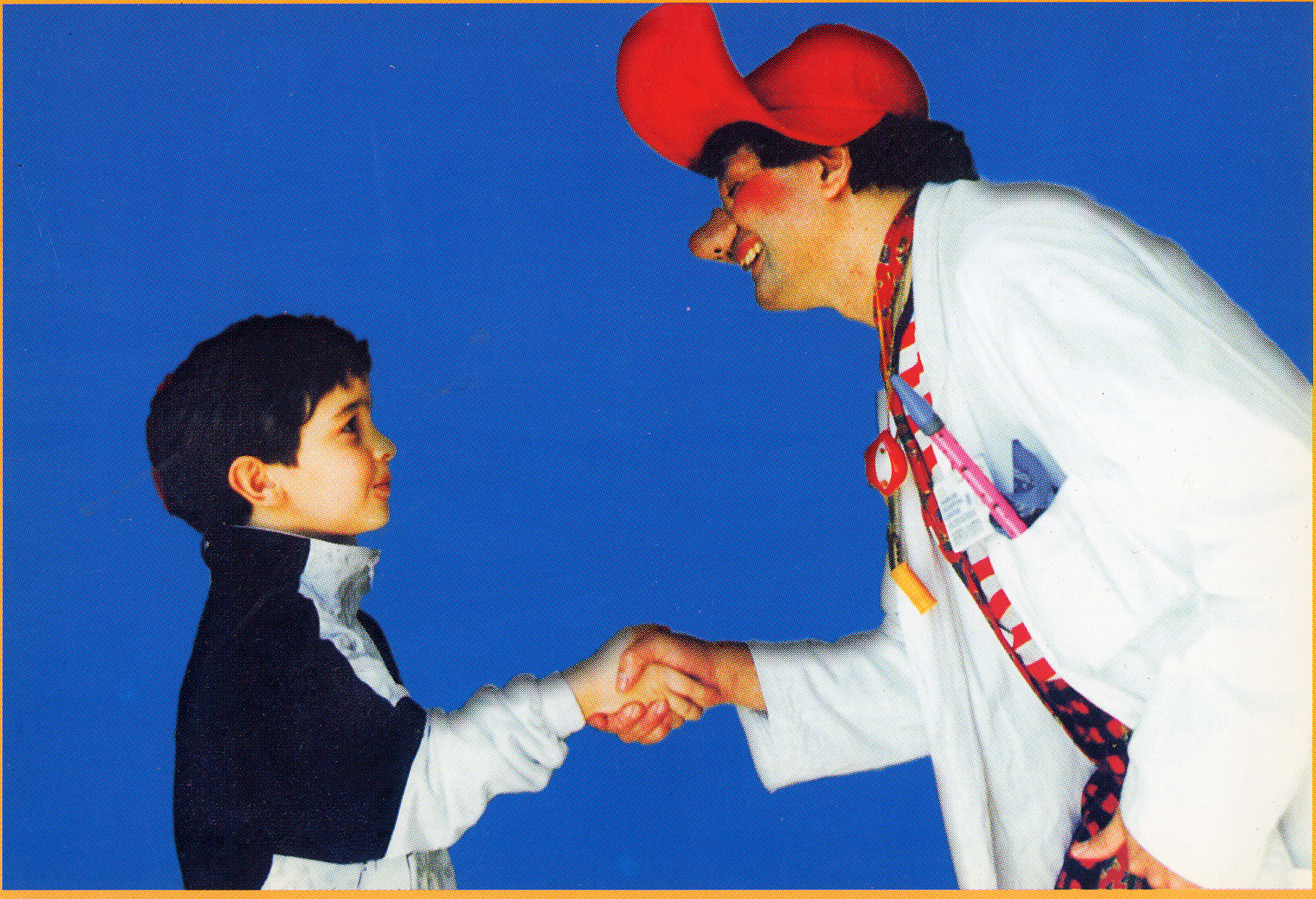 Владимир Ольшанский (Доктор Бобо) в детской больницеб Анна Майерб Флоренция, Италия